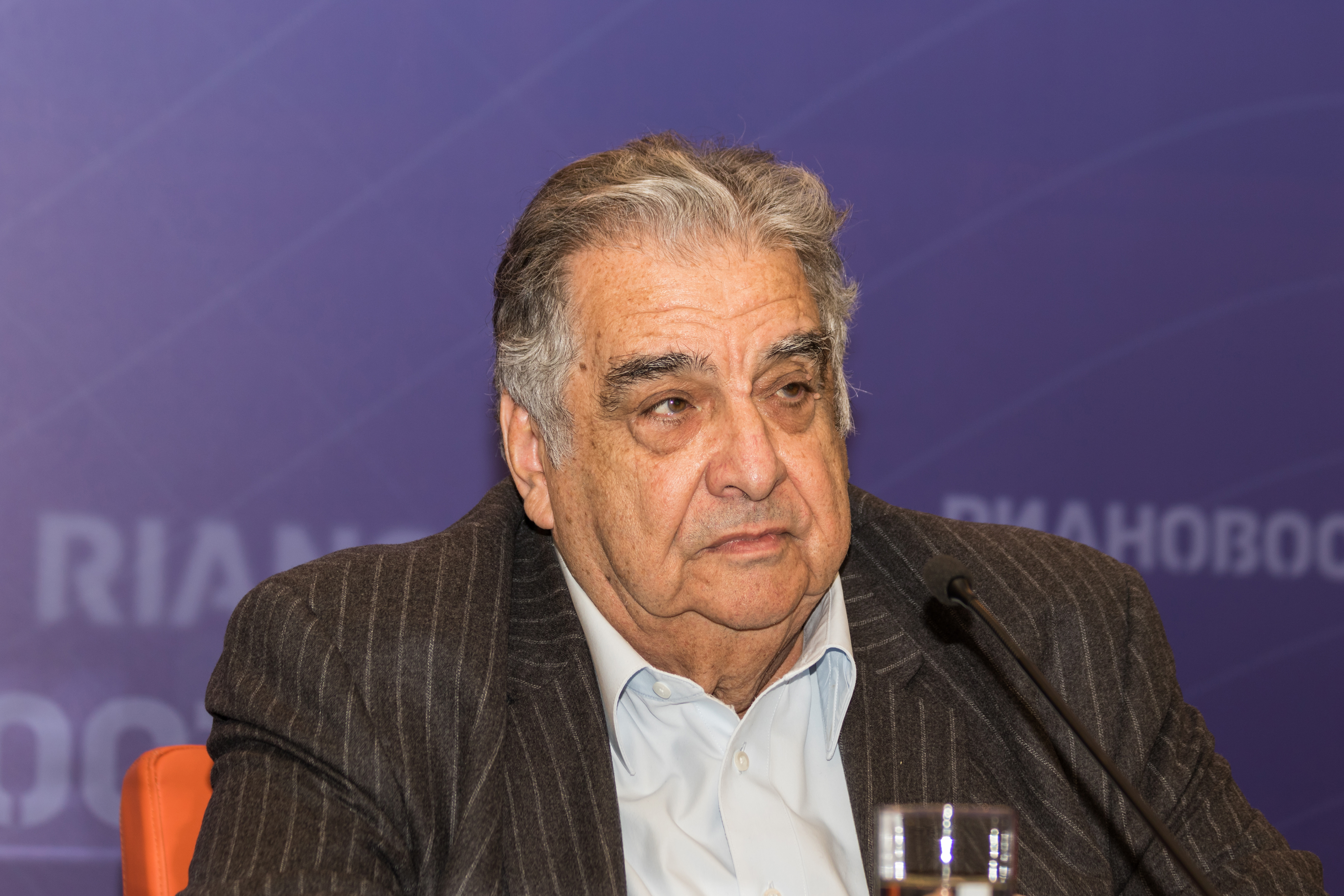 Russian economist Abel Aganbegyan, taken during press conference at RIAN/RT